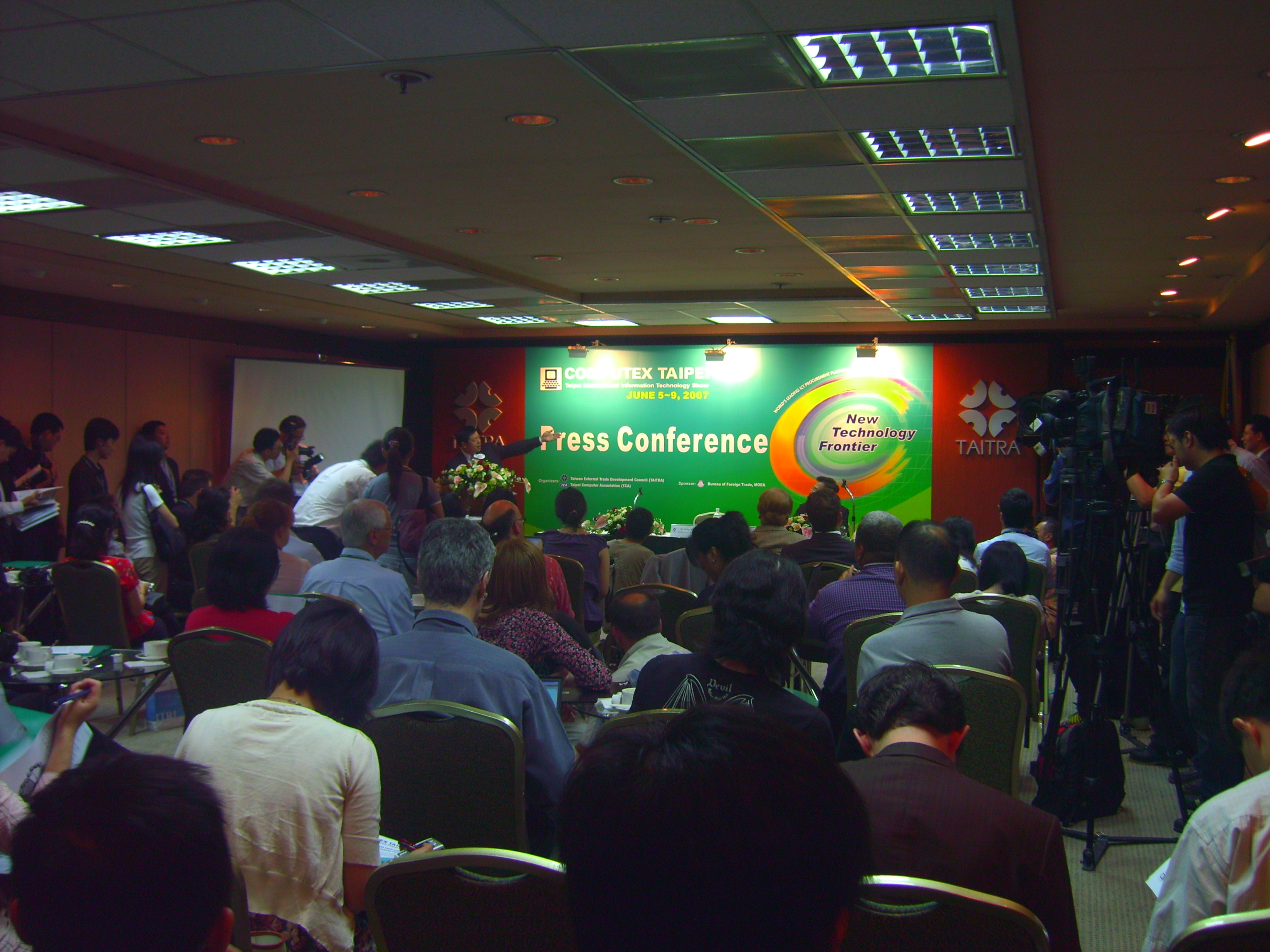 Lots of media press participated Computex Taipei 2007 Press Conference at Taipei World Trade Center VIP Room.